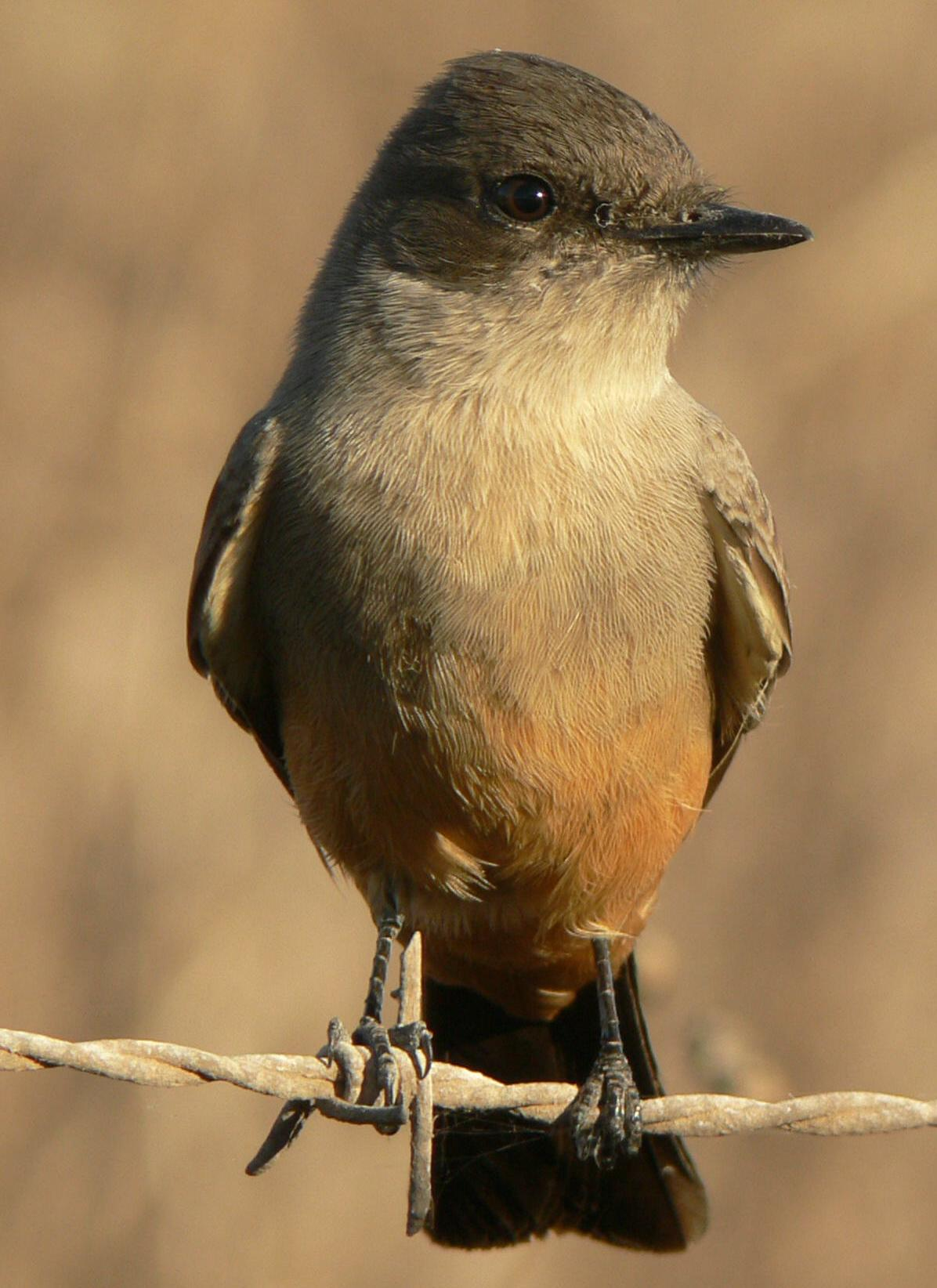 Sayornis saya View On Black